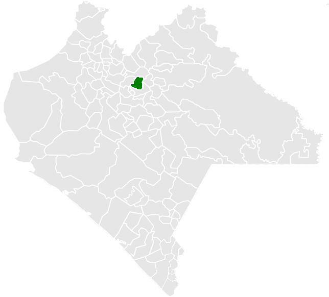 Map of the Municipalty of Chalchihuitán in the State of Chiapas, México.